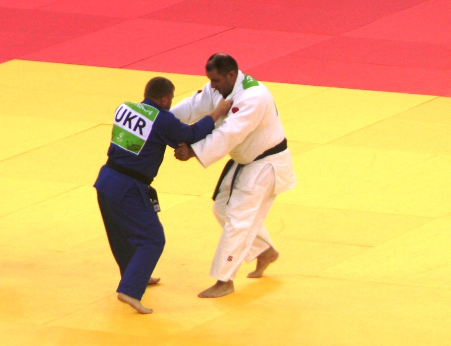 Zakiyev (AZE) vs Pominov (UKR) at the gold final of the 2015 European Games